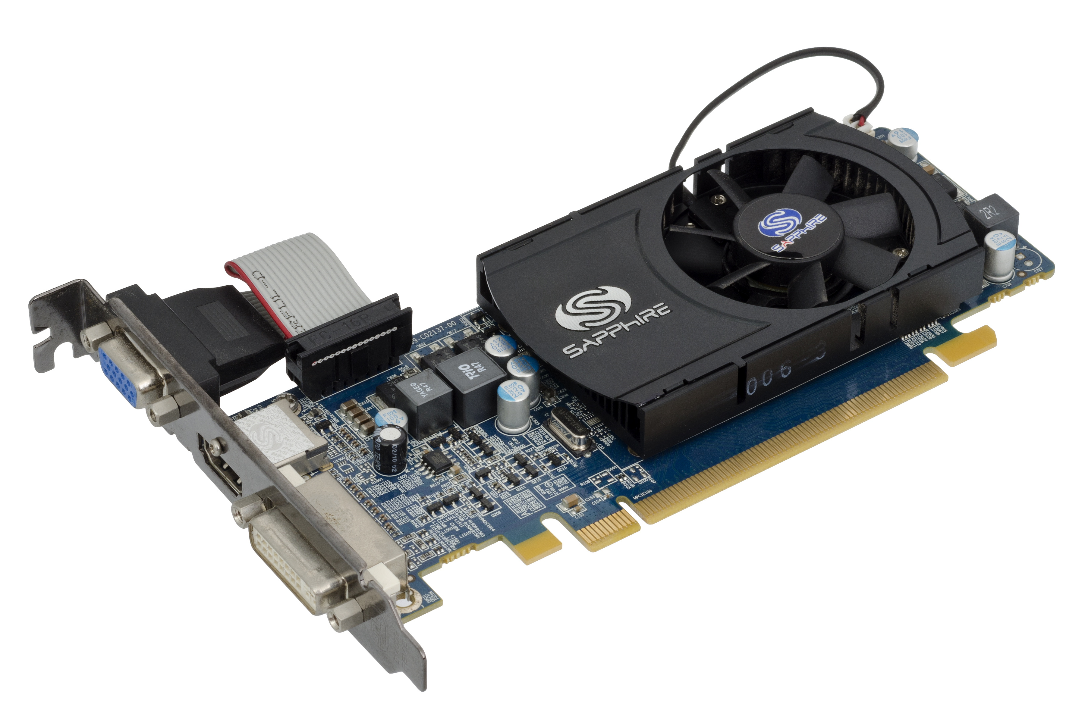 A Sapphire-brand, Radeon HD 5570 video card for computer graphics. Specs for the card are: Interface - PCI Express 2.1 x16 Core Clock - 650MHz Memory - 1GB DDR3 Capable of DirectX 11 and OpenGL 3.2